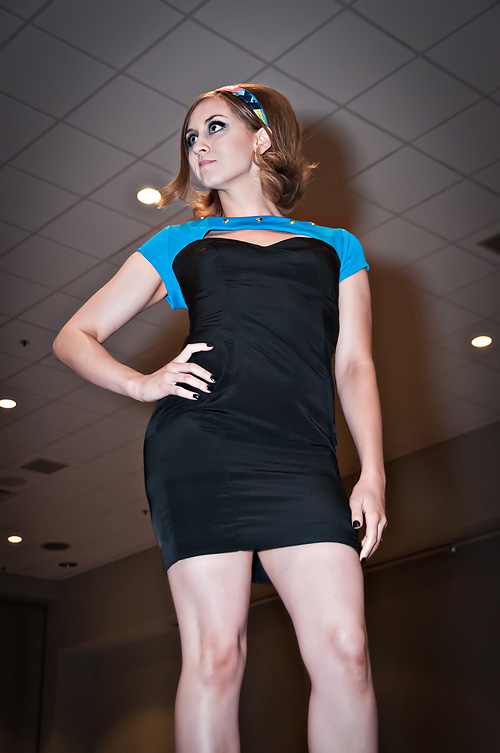 Geek Fashion Show at the 2013 Big Wow! ComicFest in San Jose, California. Carla Dawn modelling a Star Trek: Deep Space Nine-inspired cocktail dress by Unicorn Sushi.